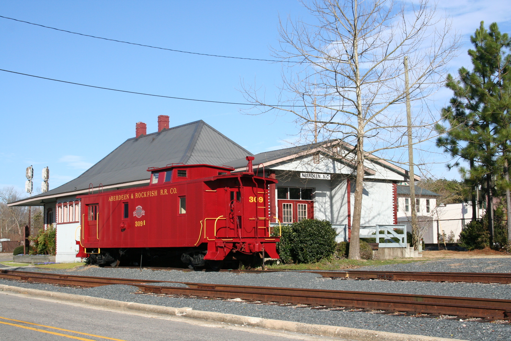 2007 Aberdeen North Carolina Train Station with Caboose